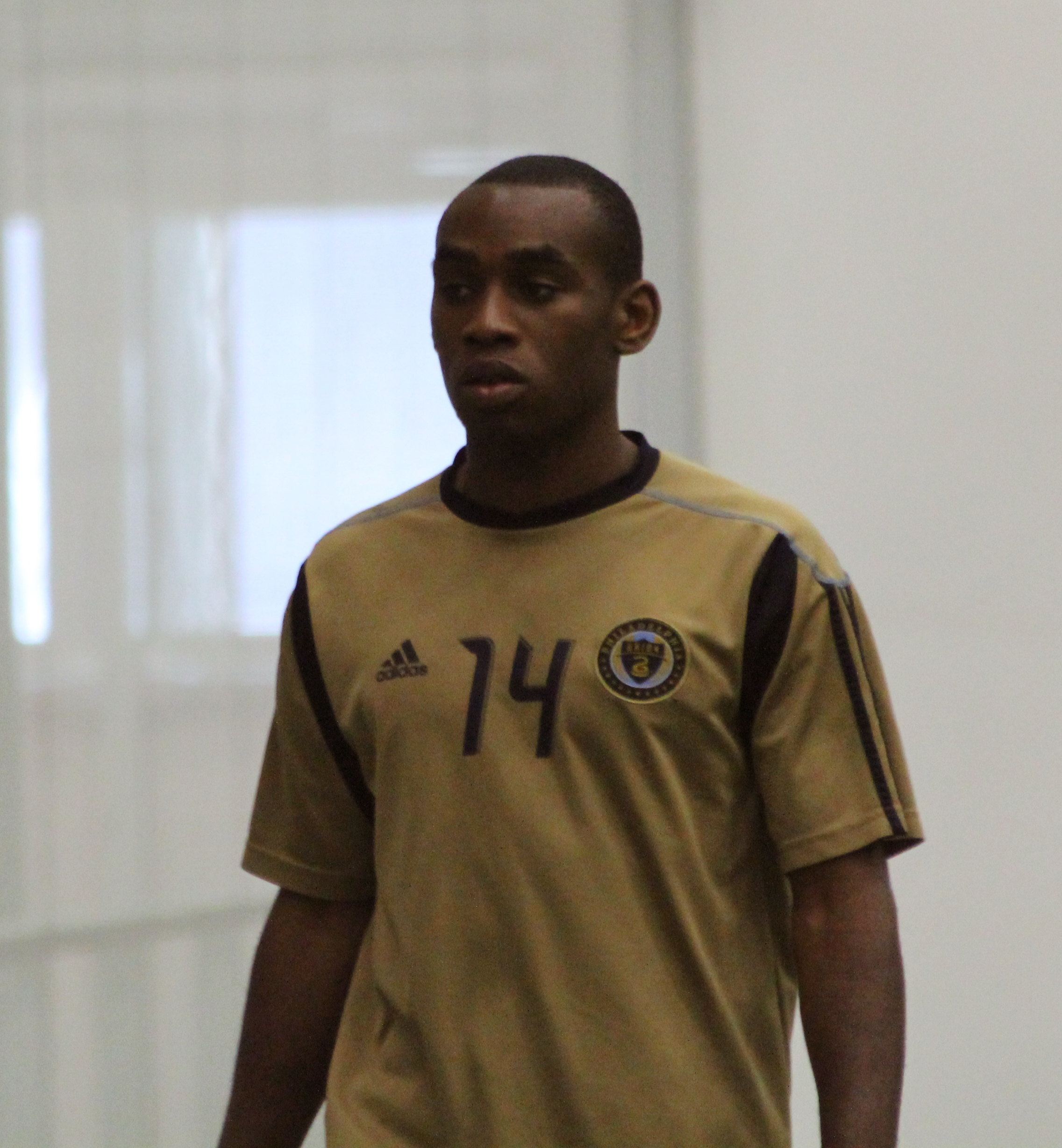 Amobi Okugo participating in preseason training, with the Philadelphia Union, at YSC Sports in Wayne. January 25, 2011.